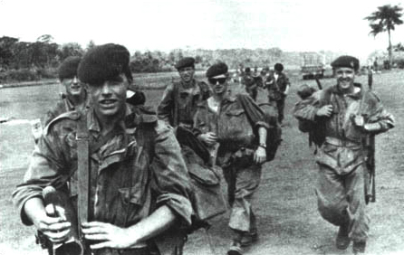 original description: "Withdrawal of Paracommandos to the airfield, Paulis" [1]